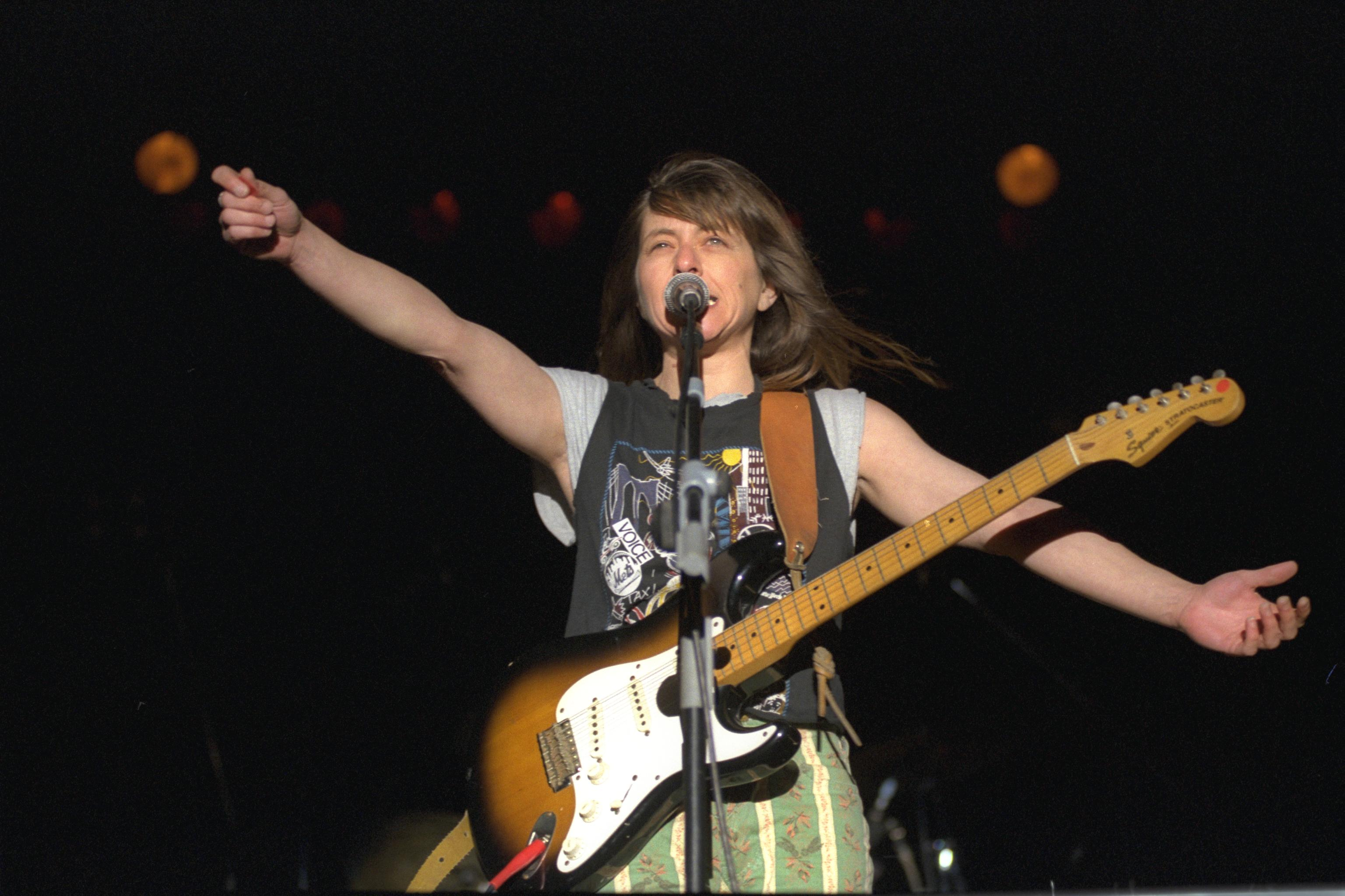 Singer Corinne Allal performing at a rock festival in the Red Sea. קורין אלאל מופיעה בפסטיבל ערד Photo: KOREN ZIV.